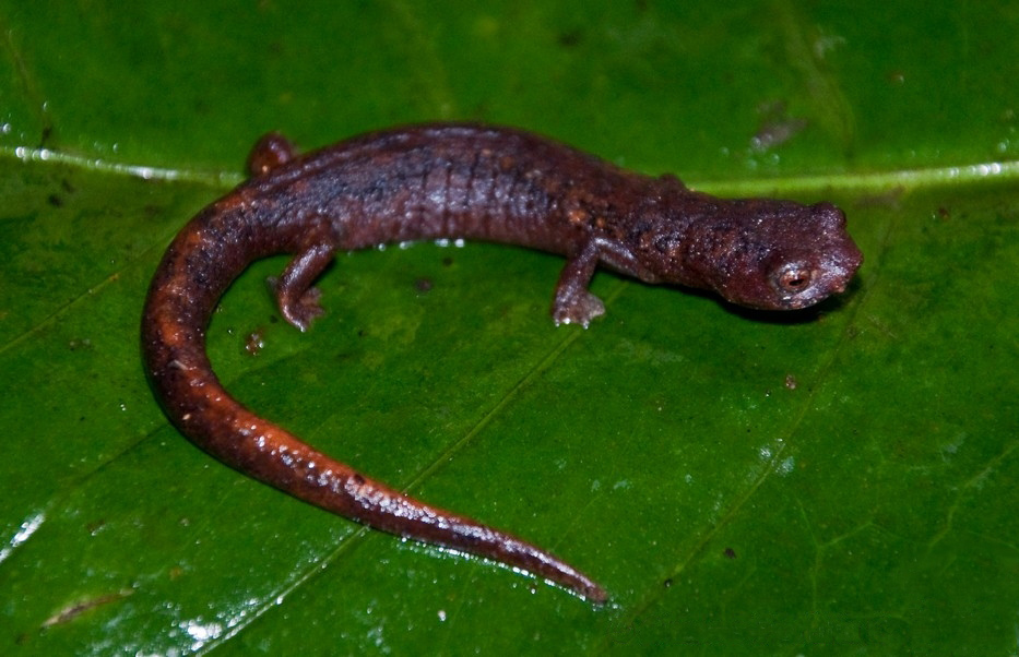 Bolitoglossa pandi